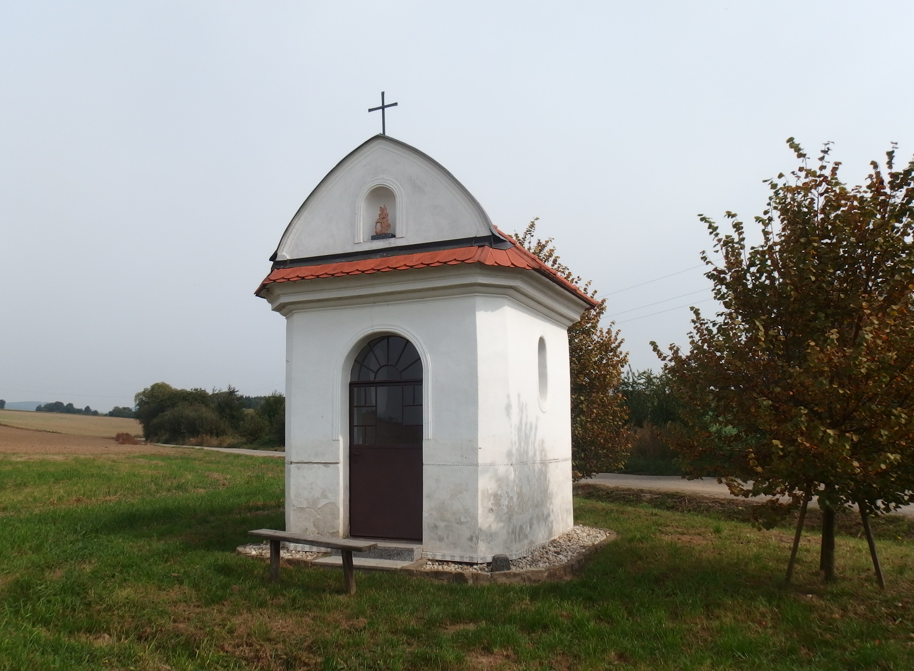 Racková, Zlín District, Czech Republic.